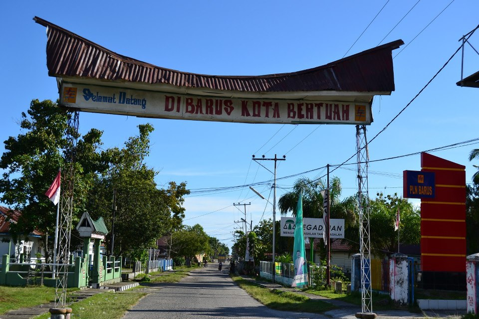 Welcome to the City of Cities Barus Sorcerer